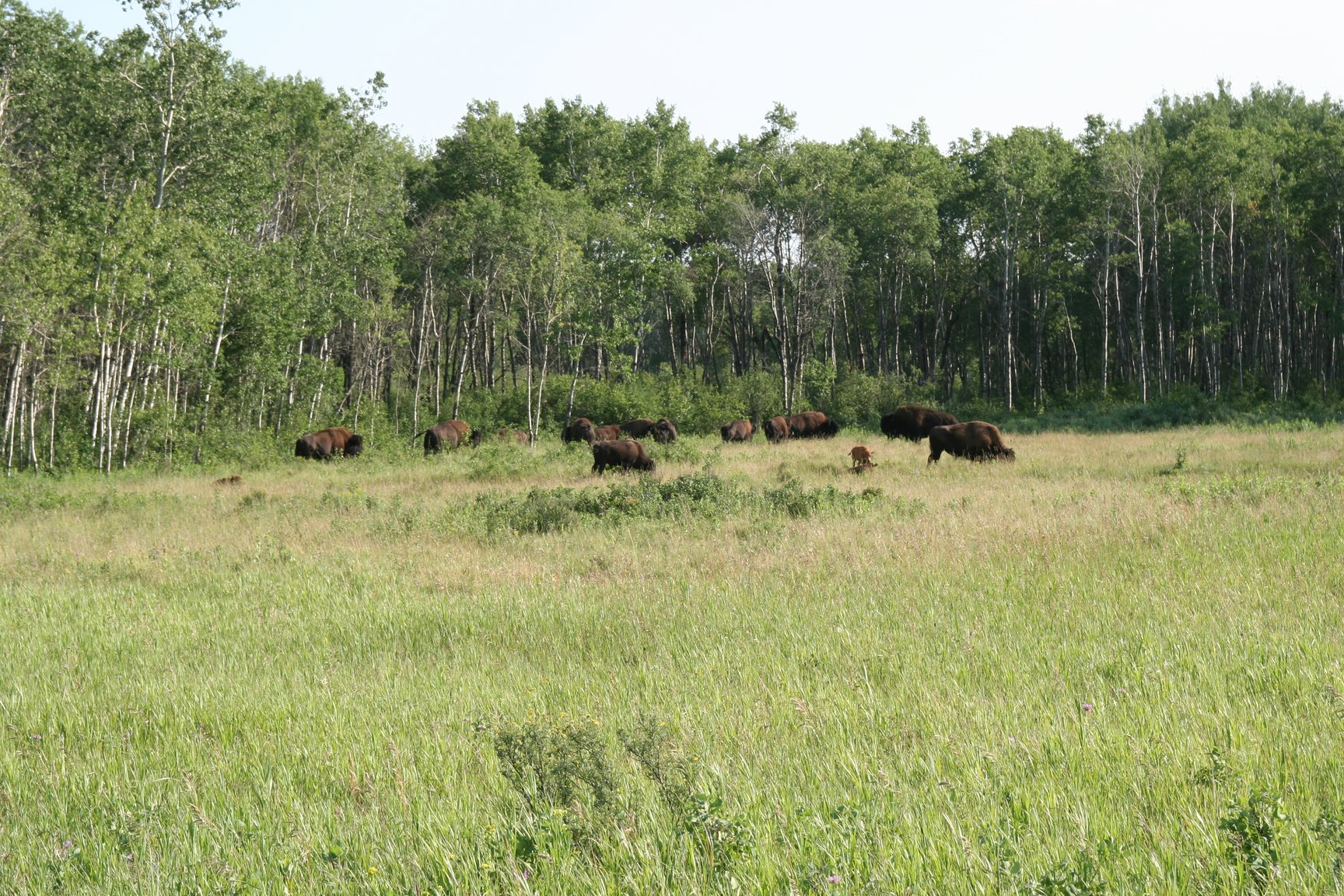 Bison in Riding Mountain